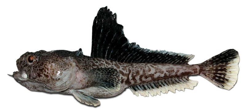 Stubbeard plunderfish Pogonophryne barsukovi Andriashev, 1967, adult male